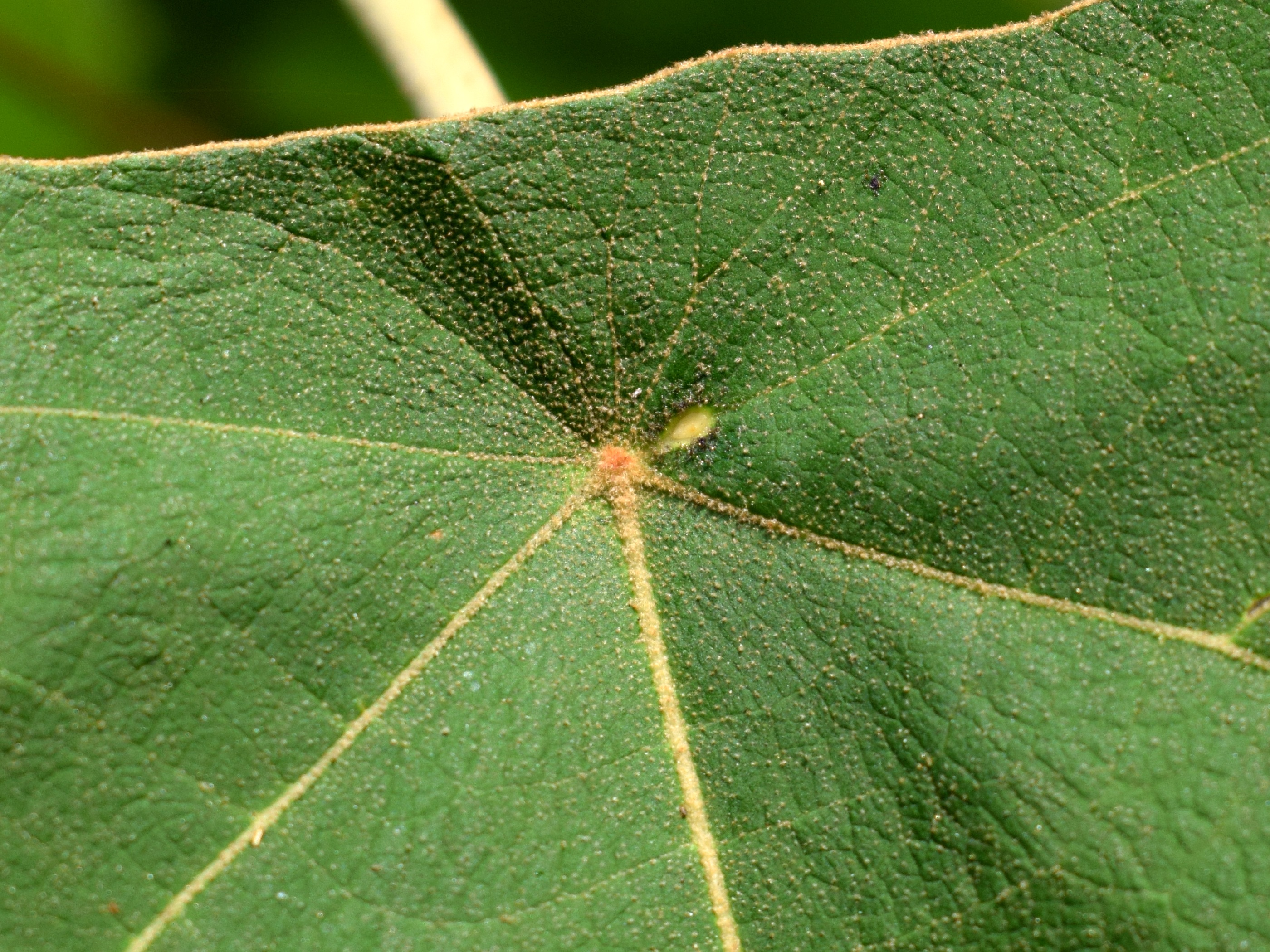 Mallotus molissimus; peltate leaf upper surface with 1 basal extrafloral nectary (other basal nectaries rudiment). From Bogor, West Java, Indonesia.